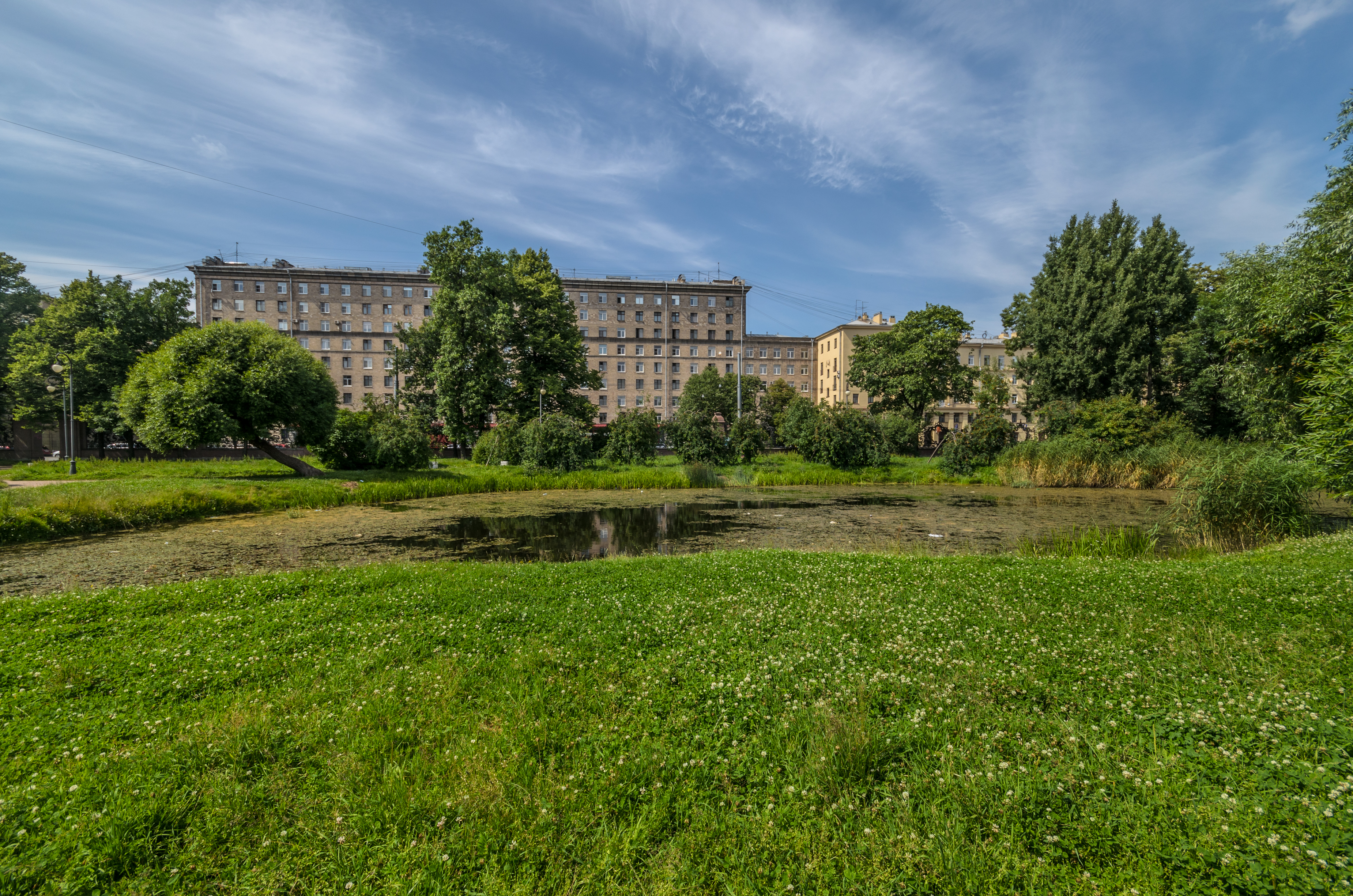 9th January Memorial Park in Saint Petersburg, view to Stachek Avenue